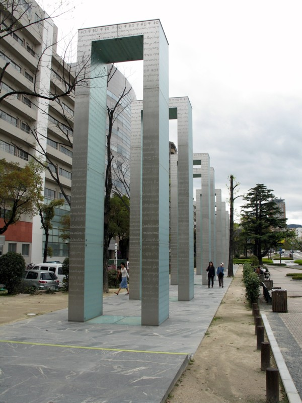 This is a picture of the Peace Gates in Hiroshima, Japan.